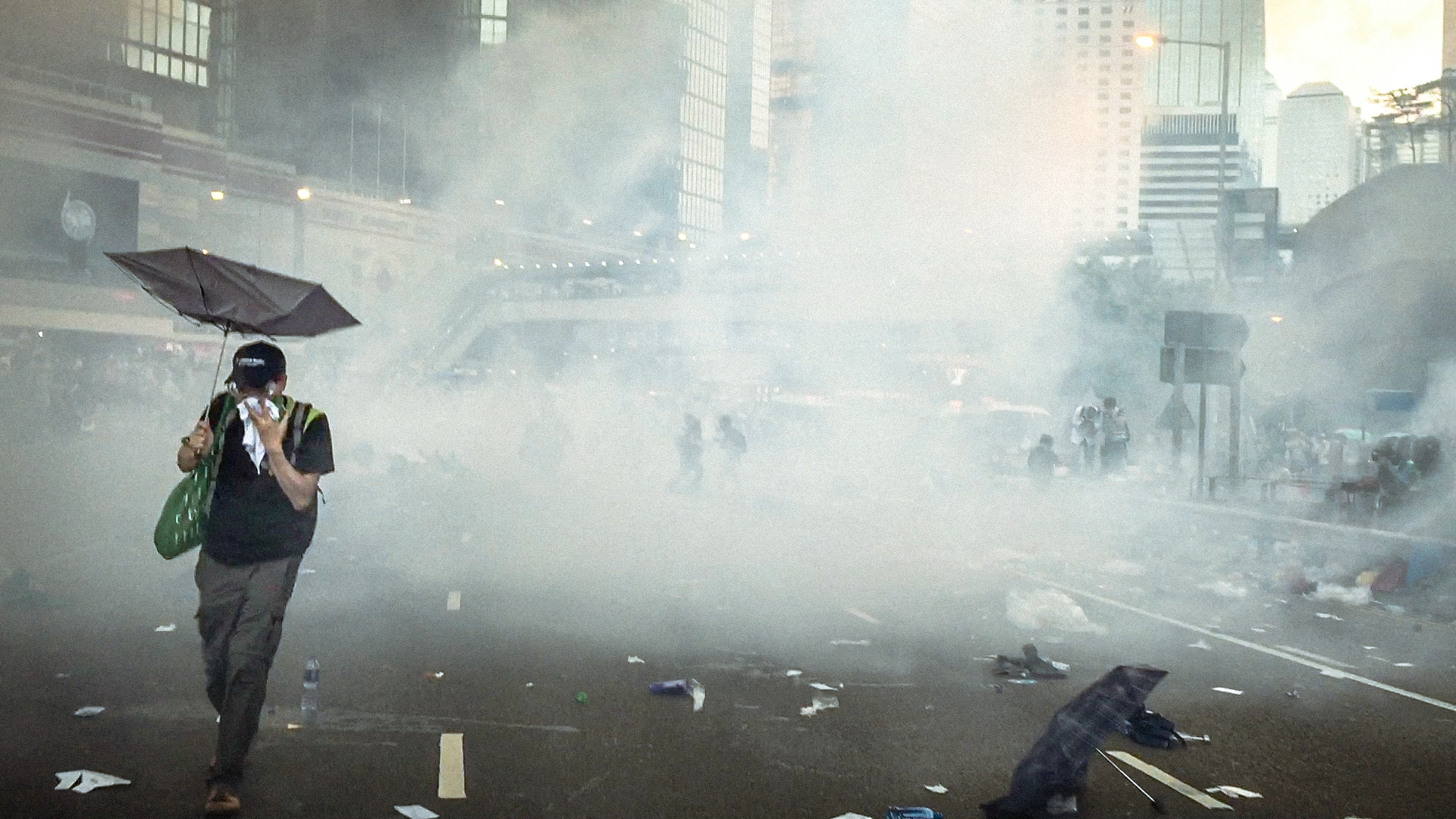 The 2th tear gas fired